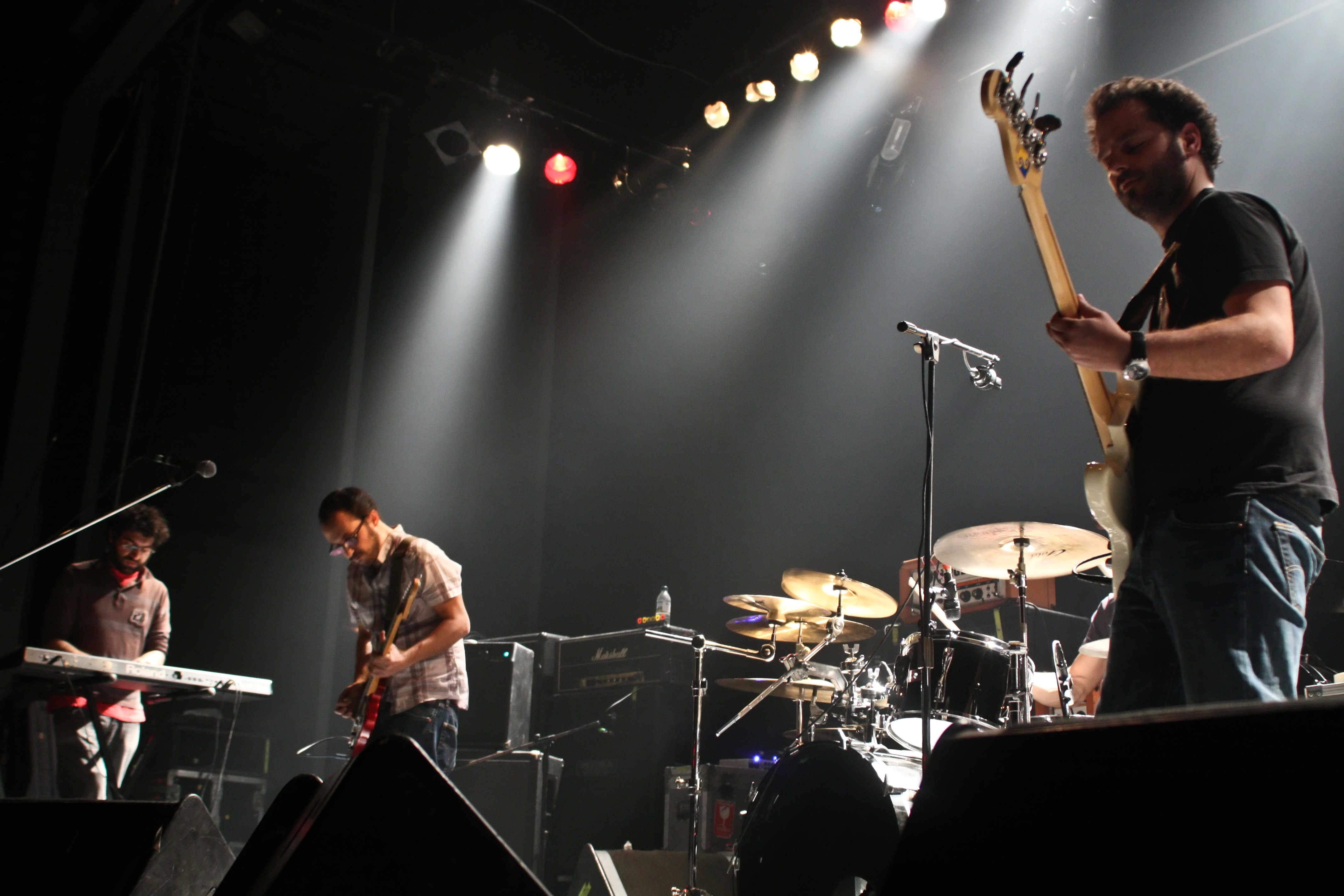 Misuse (band) playing live at club "Gagarin 205" in Athens, Greece 2008. Supporting Mogwai (band).